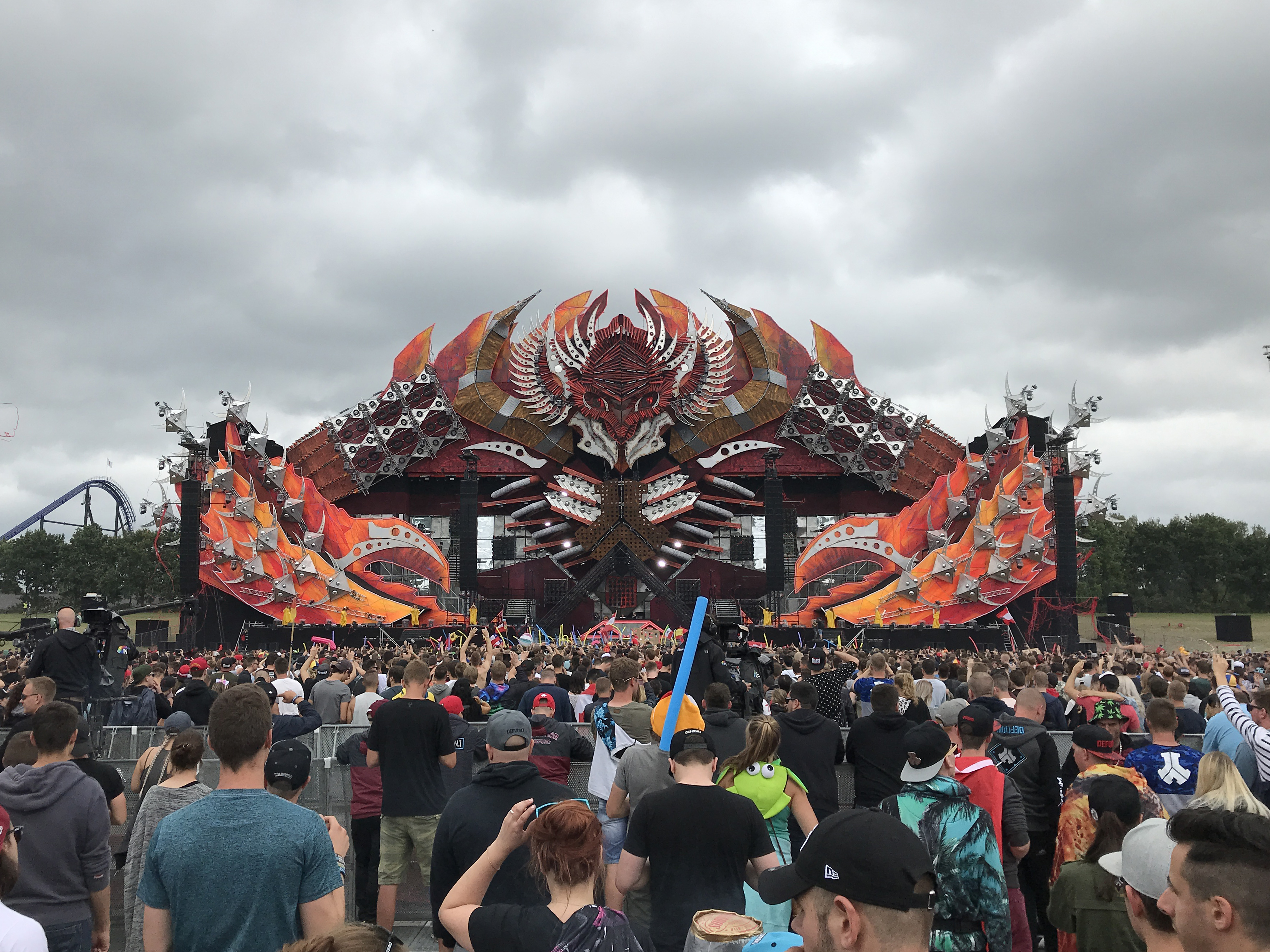 This is the Red Stage from DEFQON.1 Weekend Festival 2018